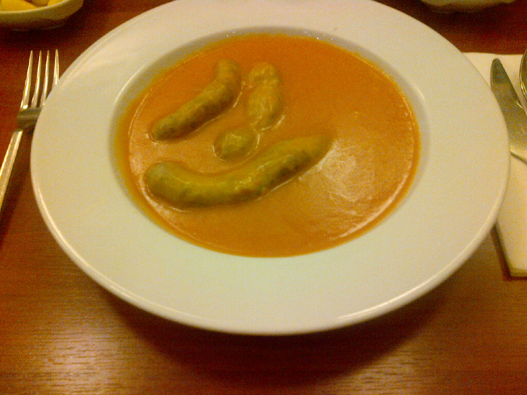 Mumbar dolma, meat and rice stuffed lamb intestines, from the Turkish cuisine.